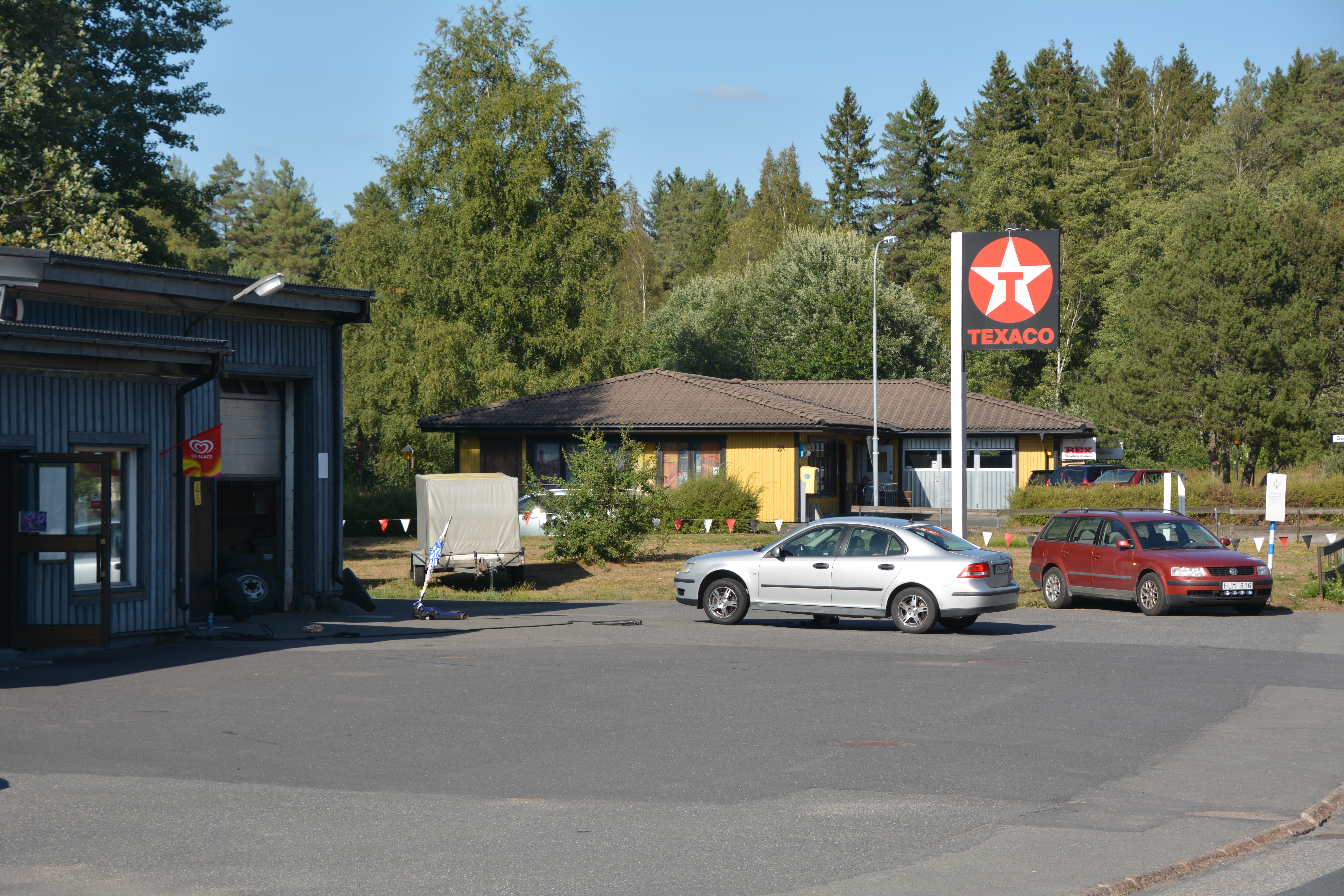 Workshop with Texaco sign, Anneberg, Sweden